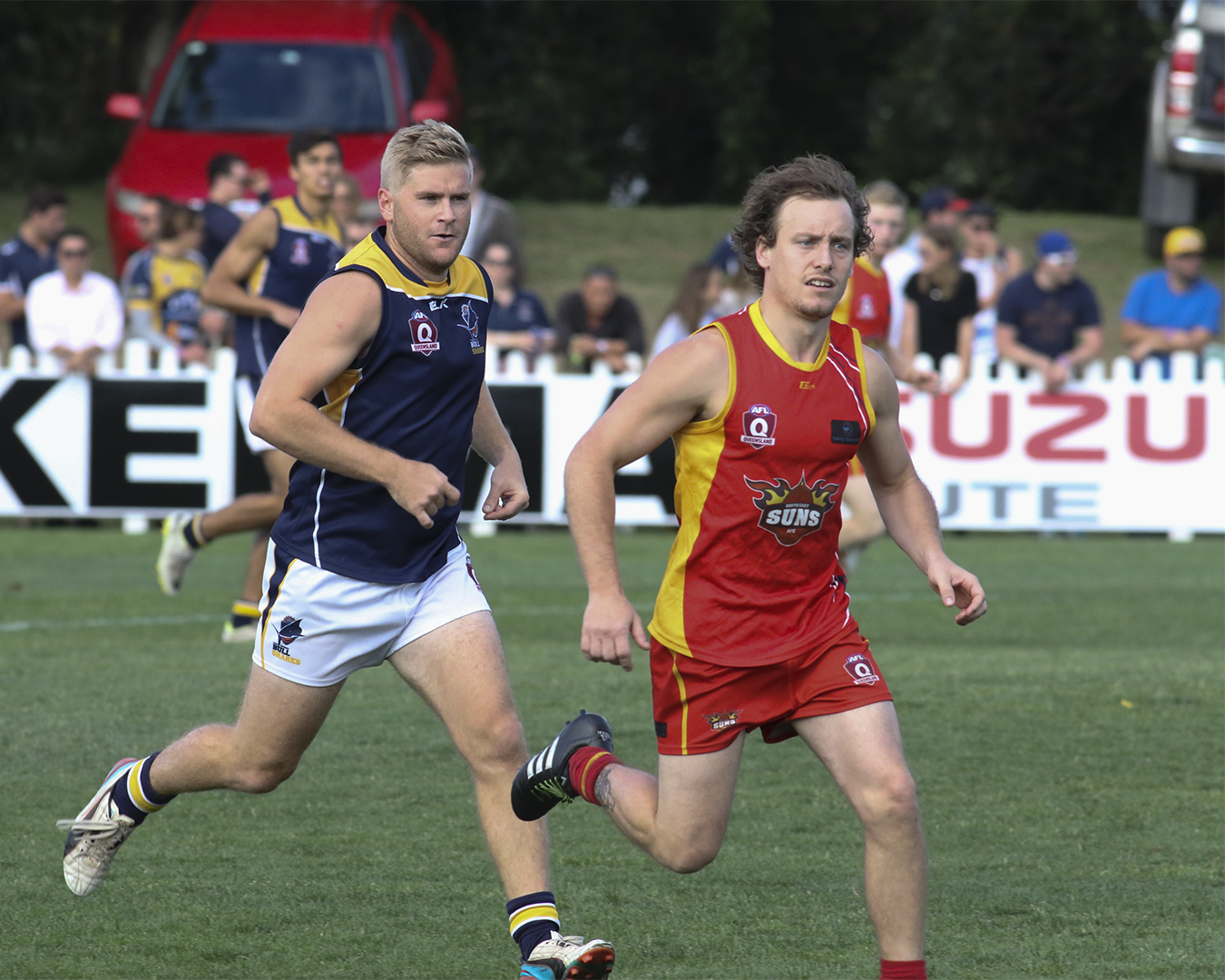 Player tagging an opponent in Australian rules football